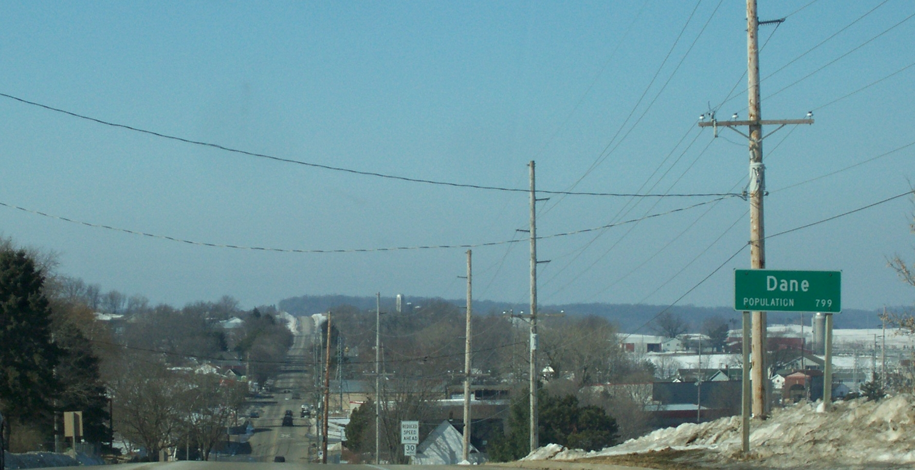 Looking west down on Dane, Wisconsin (the village in Dane County), on Wisconsin Highway 113